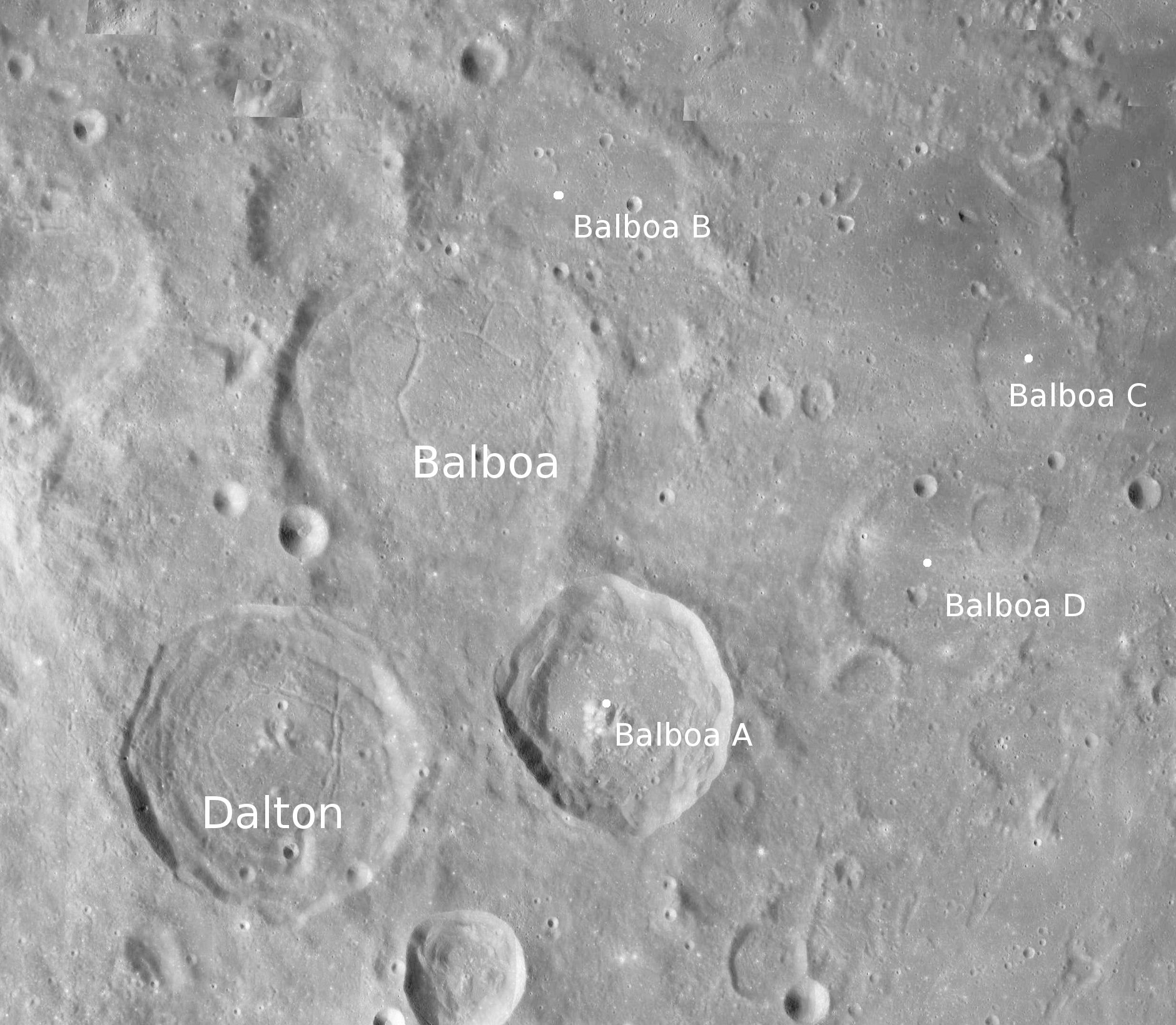 Craters Balboa and Dalton (detail of LRO - WAC global moon mosaic; Mercator projection)